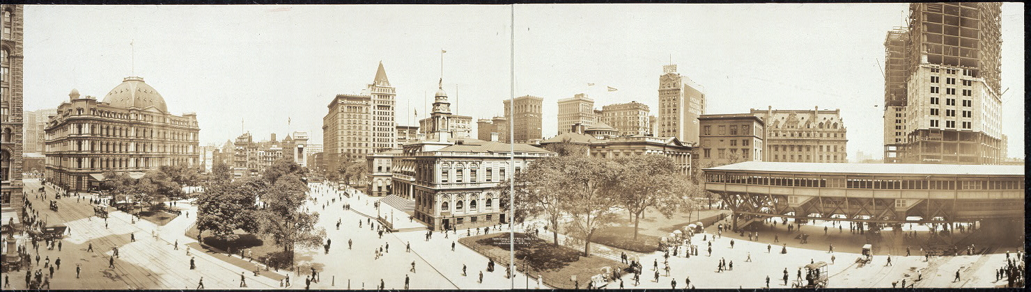 New York City Hall, ca. 1911.